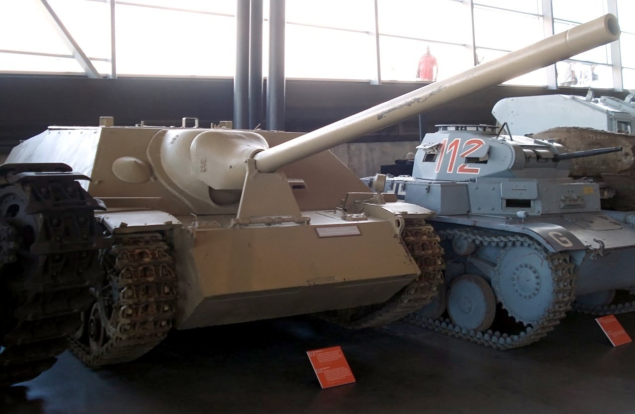 German tank destroyer Jagdpanzer IV/70 (V) displayed at the Canadian War Museum in Ottawa, Ontario. Source: Photo by me, User:Balcer. Date=July 31, 2007